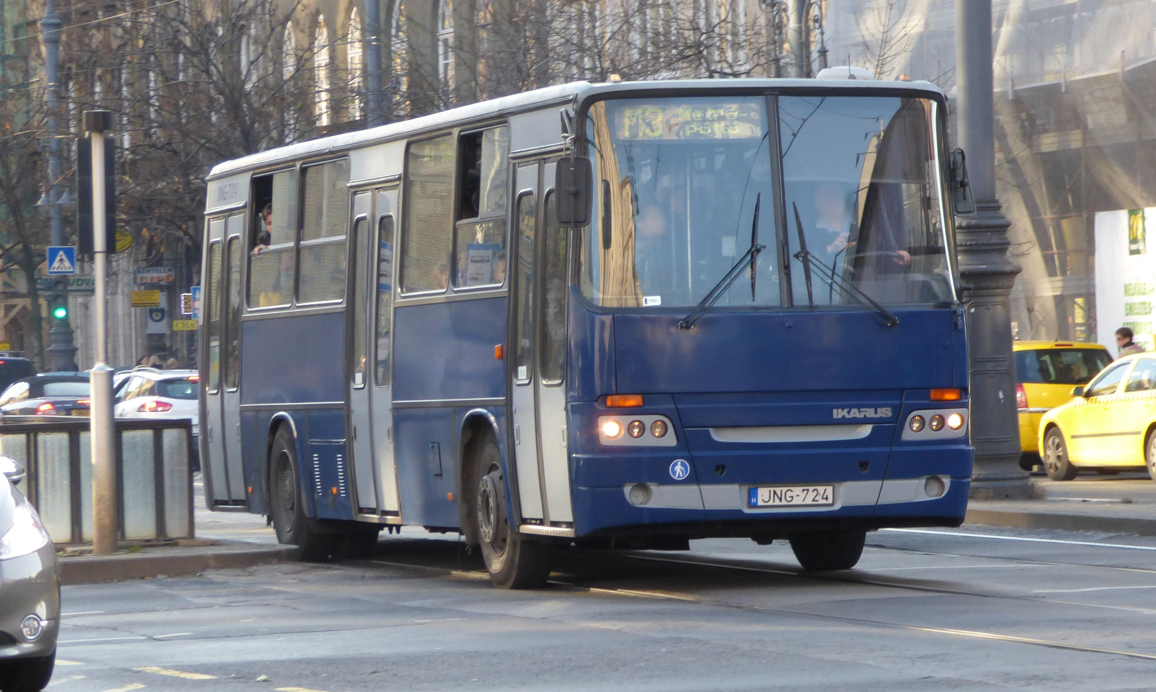 Metro replacement bus, Budapest (reg. JNG-724)